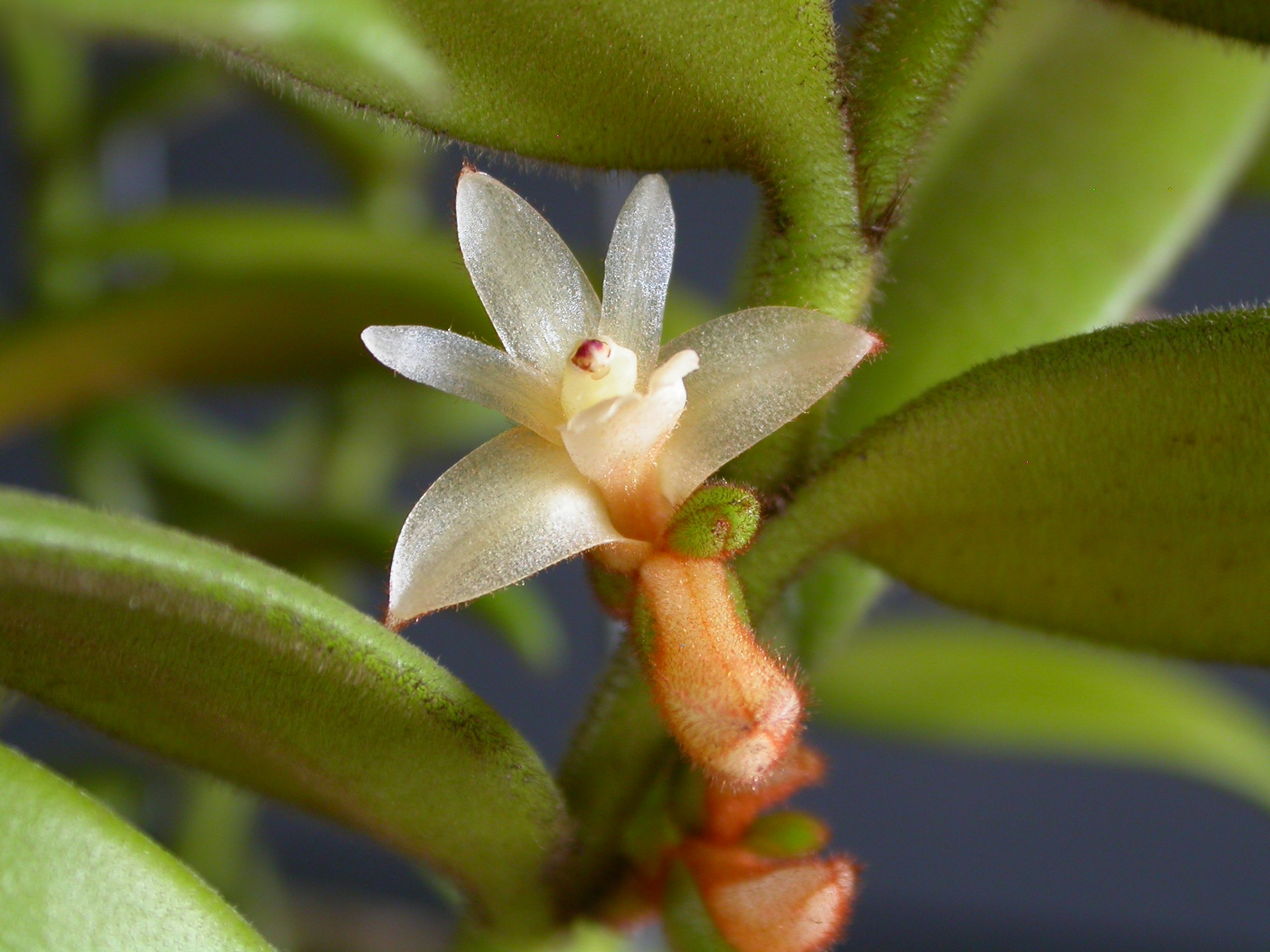 Trichotosia velutina